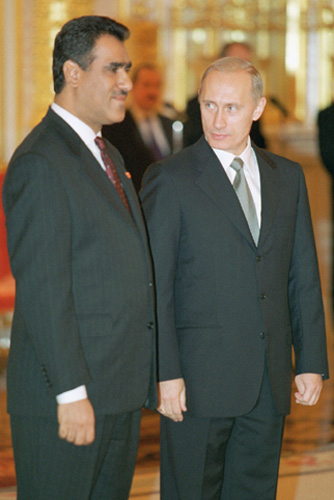 THE KREMLIN, MOSCOW. With Ambassador of the State of Bahrain Tawfeeq Ahmed Khalil al-Mansoor.